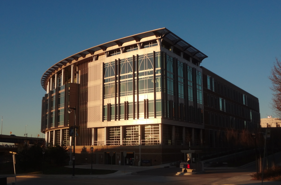 Marquette University Law School at Sunrise